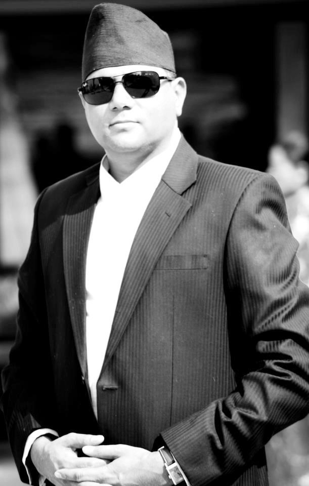 नारायण पुरी, Nepal